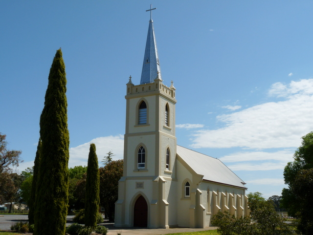 The Immanuel Lutheran church at Light Pass, Barossa Valley